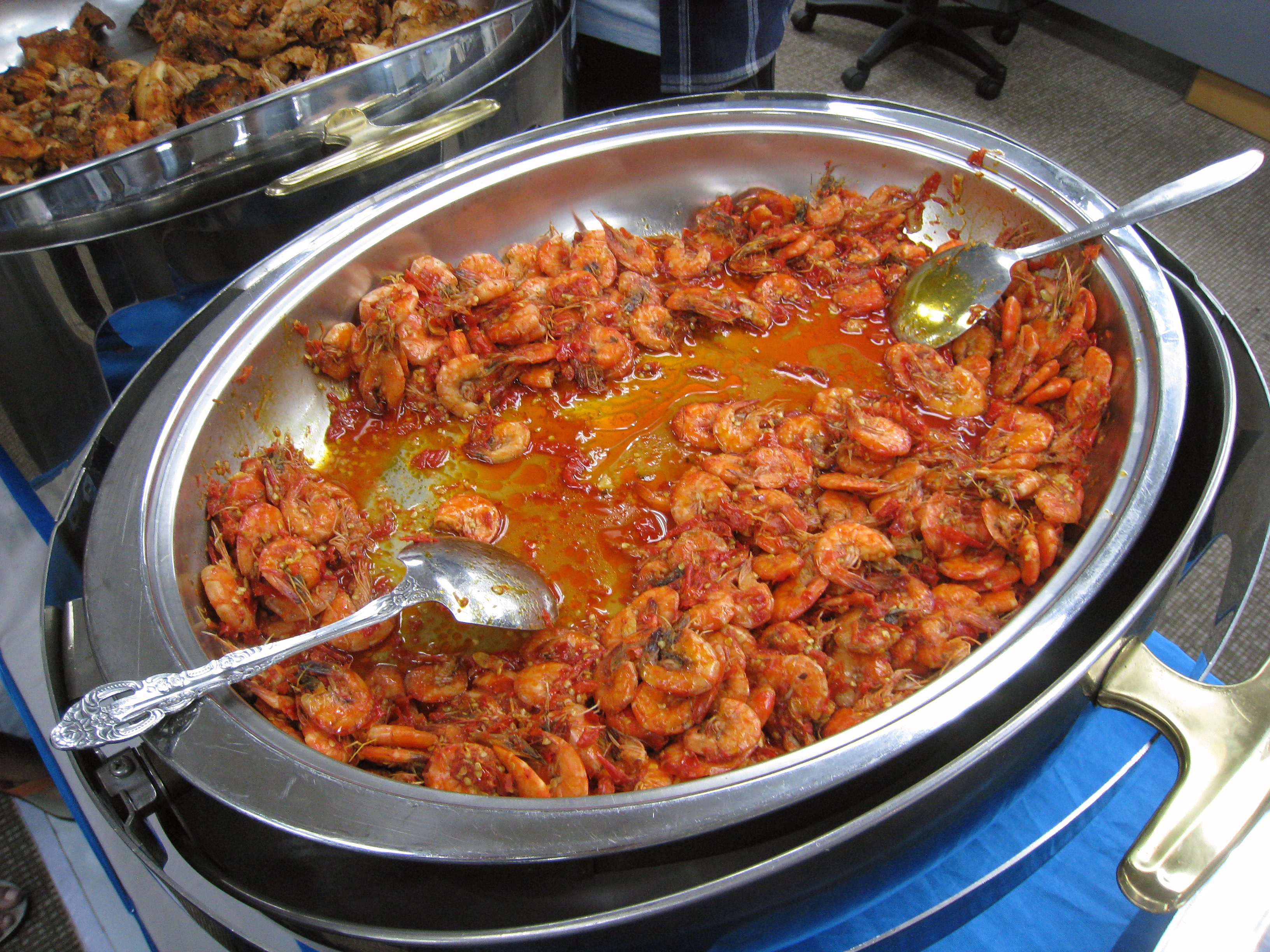 Udang balado, shrimp in spicy balado (chili pepper sauce). A popular Minang (Padang) dish served in a prasmanan (buffet) in Jakarta, Indonesia.